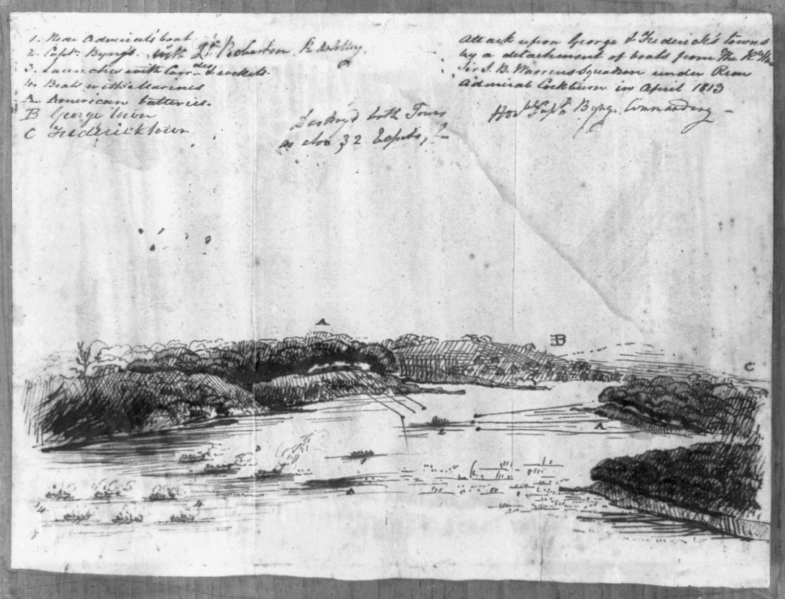 Title: Attack upon George & Federick's towns by a detachment of boats from The R. Hon. Sir T. B. Warrens squadron under Rear Admiral Cockburn in April 1813 Abstract/medium: 1 drawing on laid paper : ink.